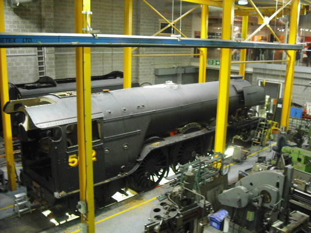 LNER Class A3 4472 Flying Scotsman under repair at the National Railway Museum, York